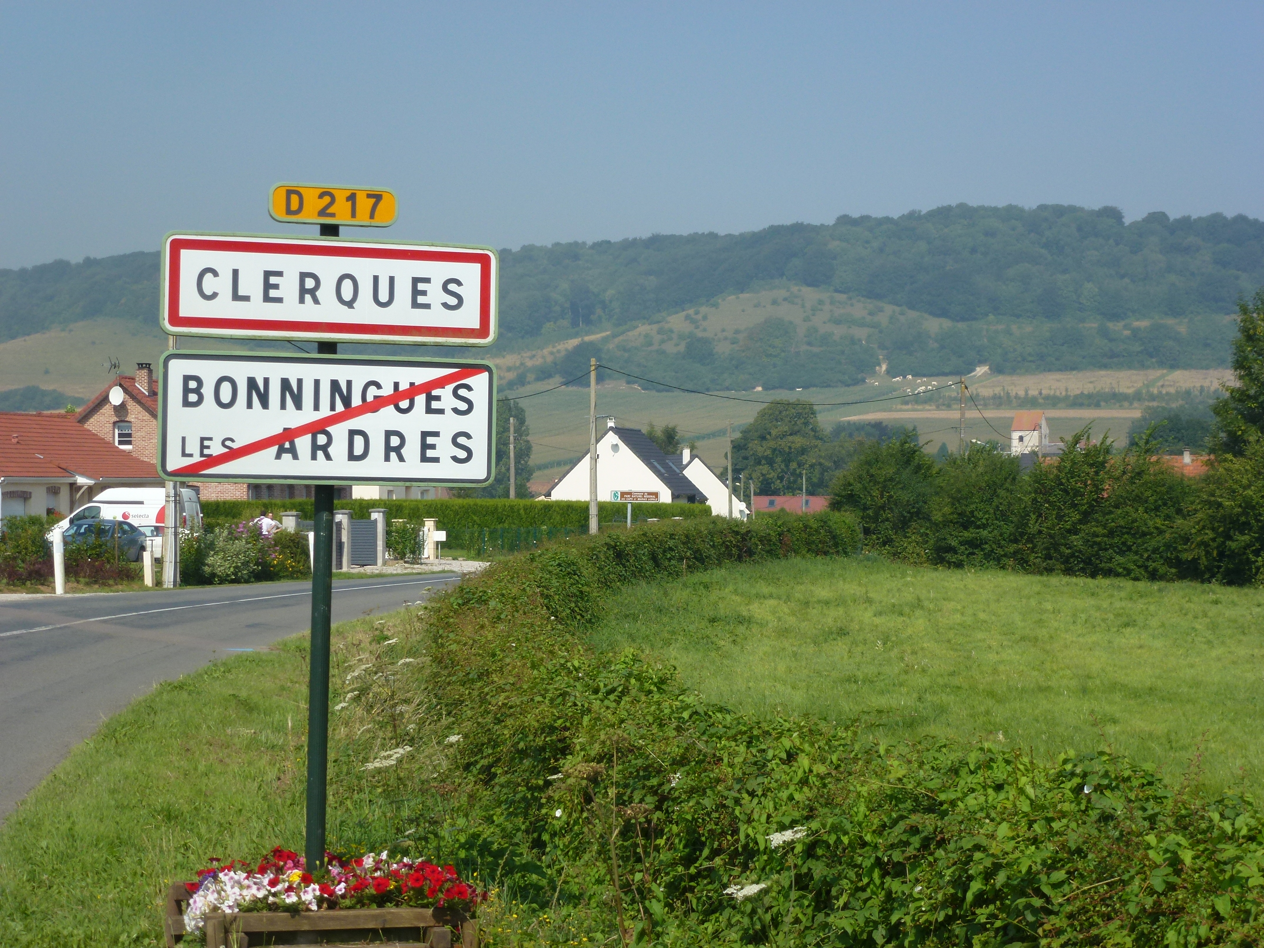 Clerques ~ Bonningues-lès-Ardres (Pas-de-Calais) city limit sign